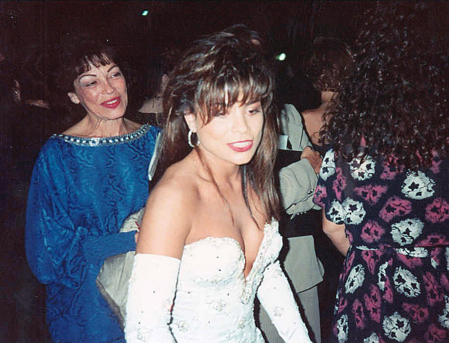 Paula Abdul at the 41st Annual Emmy Awards